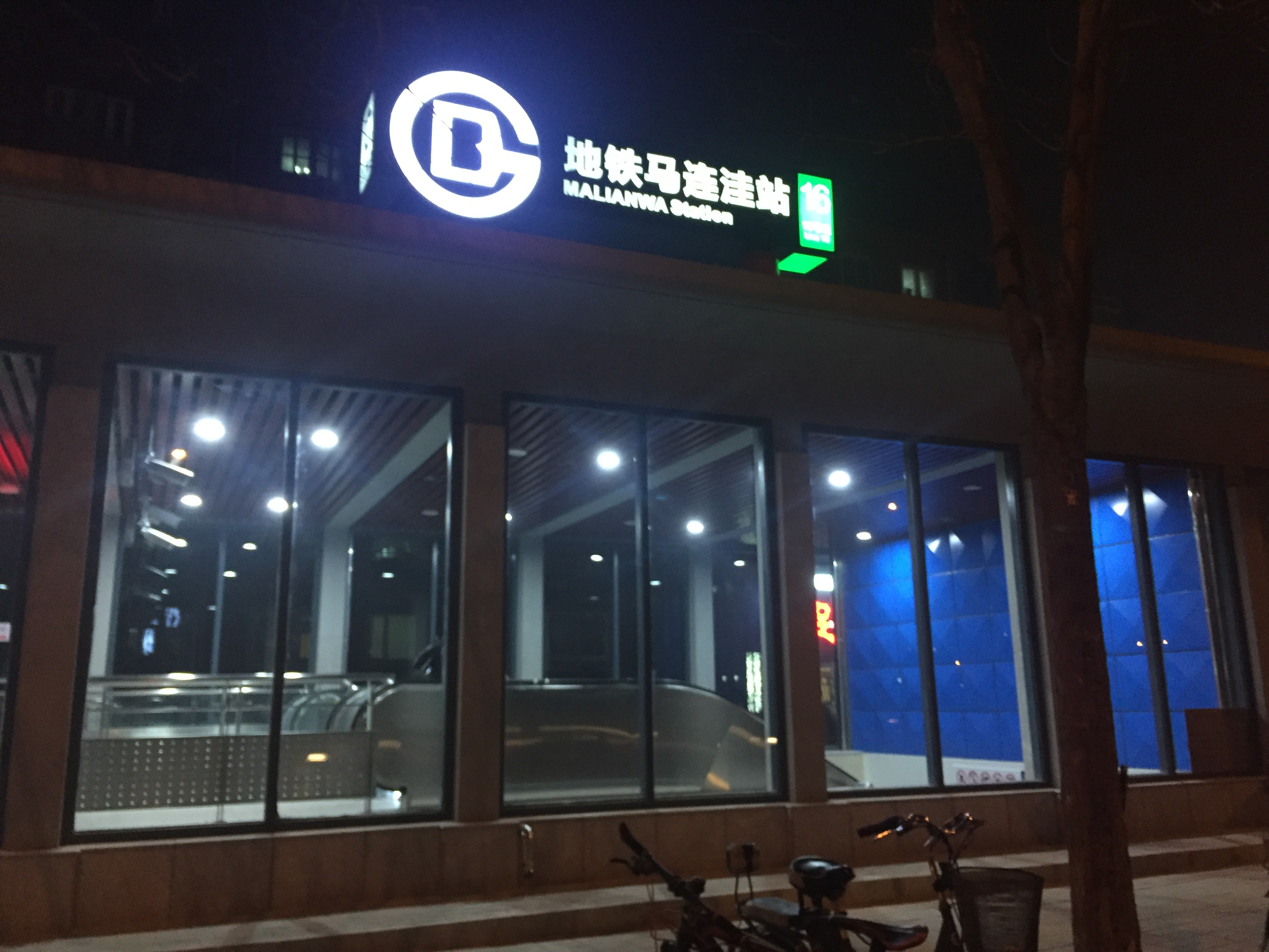 Exterior of the Malianwa Station at night